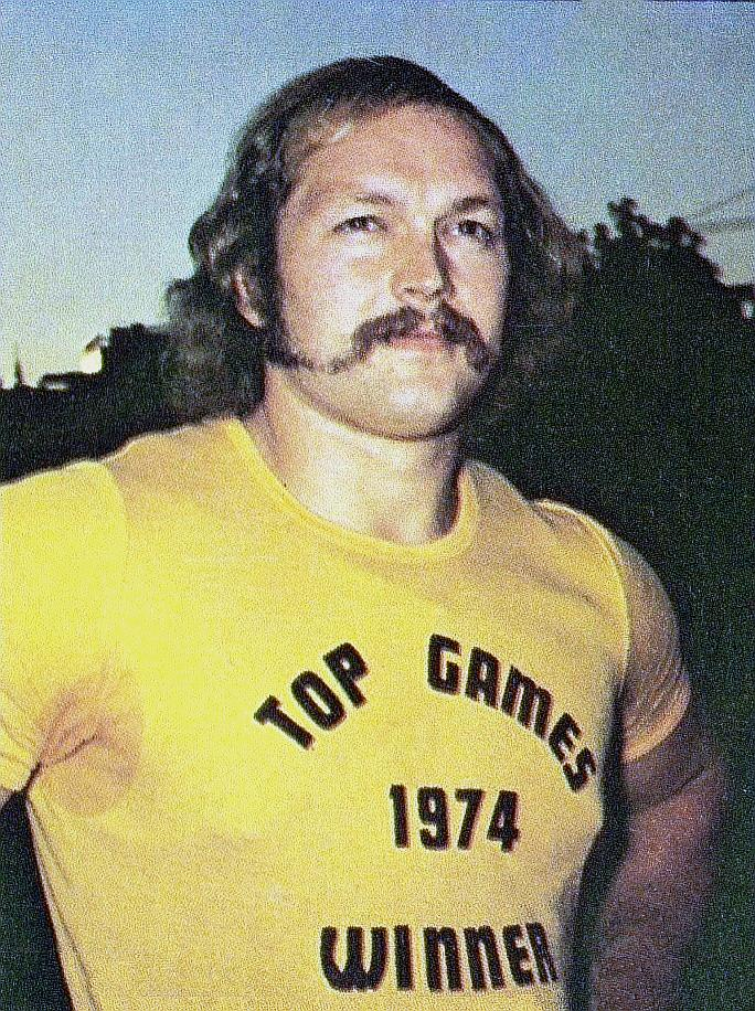 AL FEUERBACH - USA - MONTREAL 76 N° 140 - PANINI